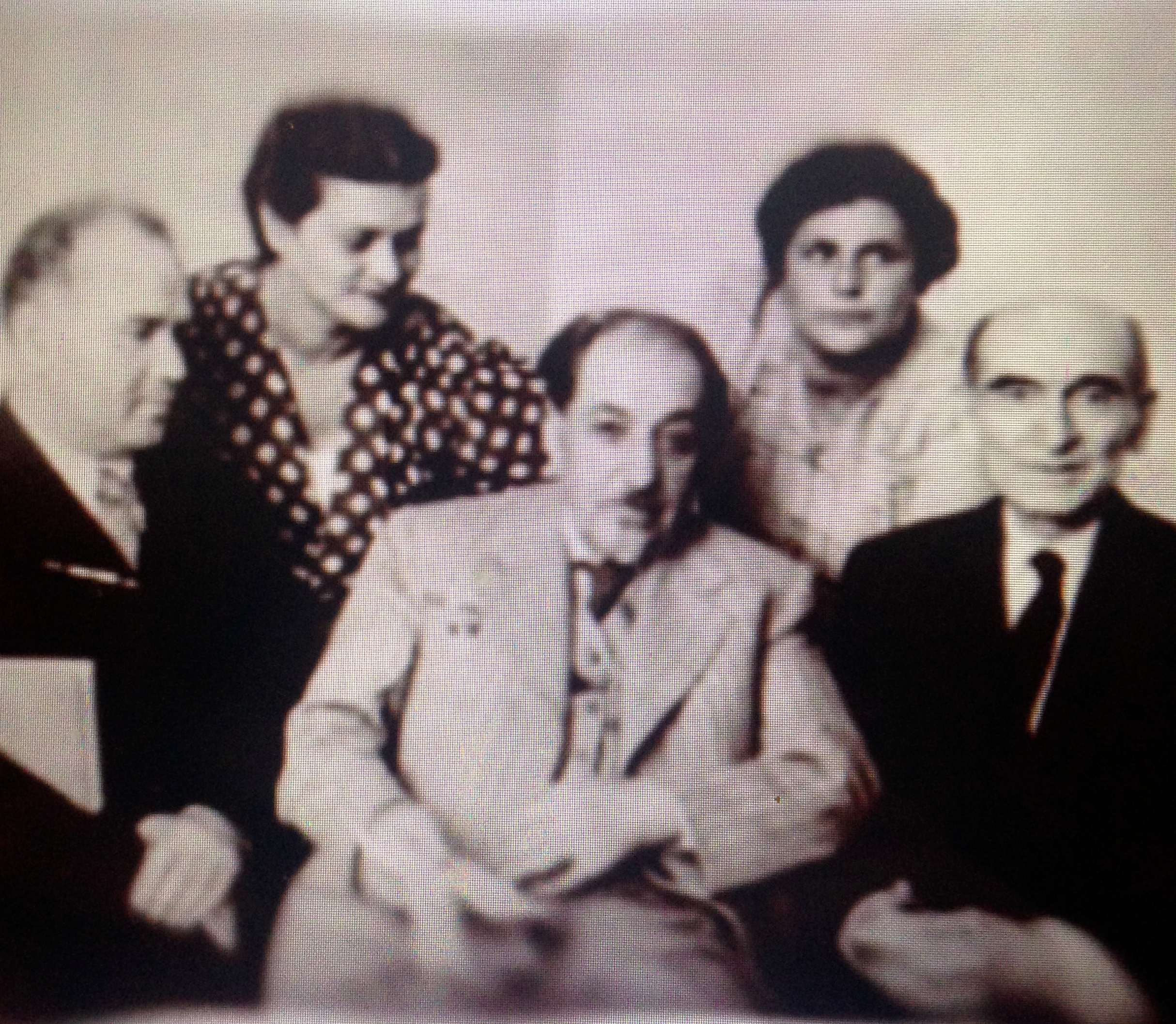 Front row, left to right: Armenian writers Hmayak Siras, Avetik Isahakyan, and Derenik Demirchian. Back row: unnamed women.